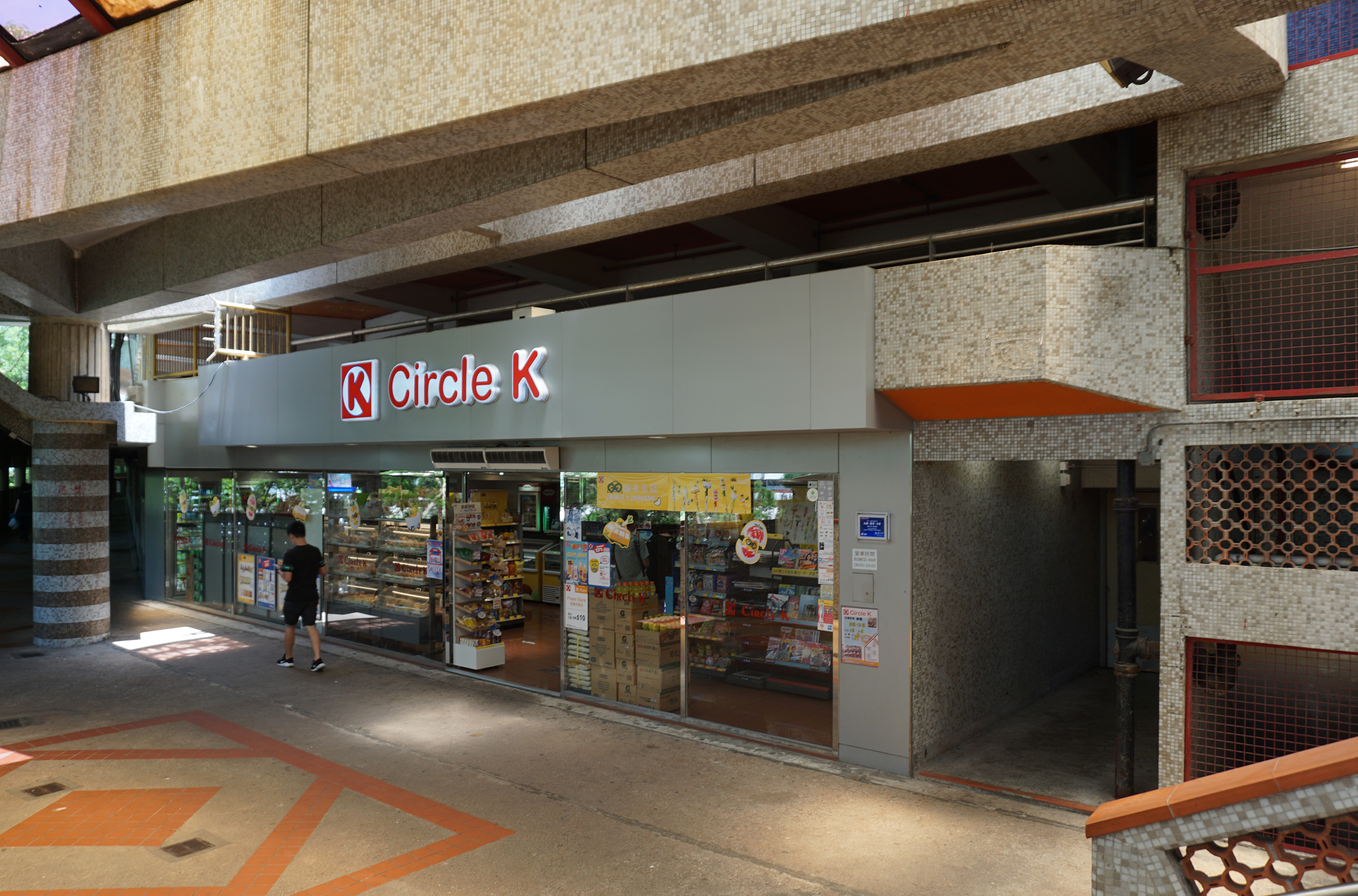 Ching Wah Court in Tsing Yi, Hong Kong.